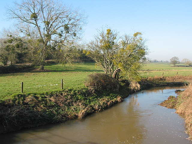 The River Leadon from Wedderburn Bridge Looking upstream across pastureland.